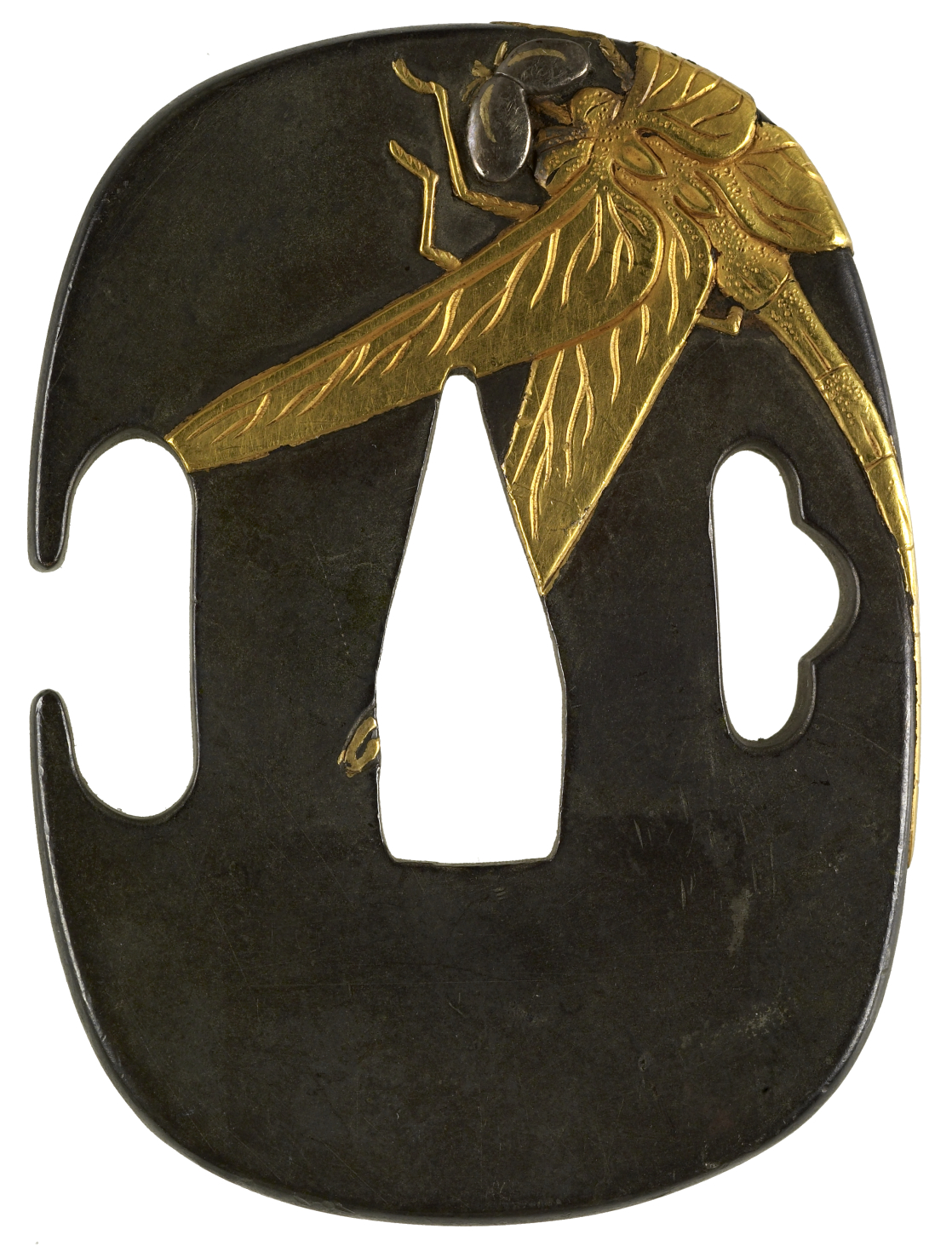 The body of a dragonfly is at the upper right of the tsuba. The wing's on the dragonfly's right extend over the top and appear on the reverse. The tail runs along the right edge. Dragonflies are a symbol of autumn. There is also an ancient tradition of calling Japan "Dragonfly Island" because the legendary first emperor, Jimmu, thought that when viewed from the top of a mountain the islands had the shape of a dragonfly.